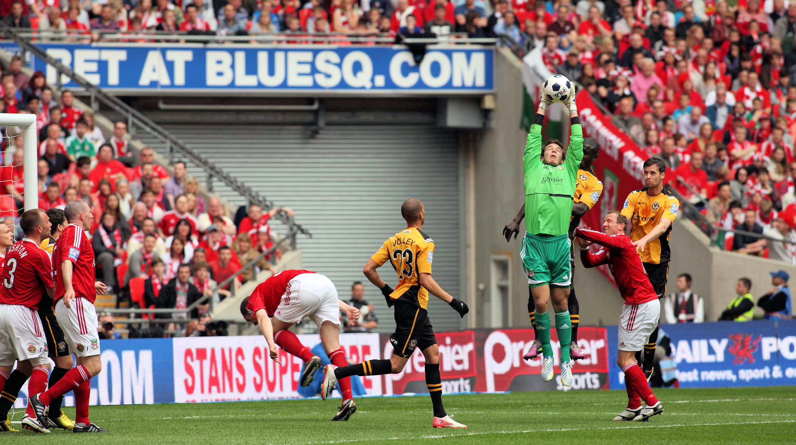 Chris Maxwell Wrexham FC at Wembley 2013 during the FA Trophy victory against Grimsby